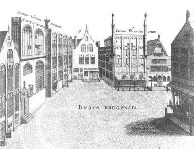 The historical Beursplein in Brugge, Belgium